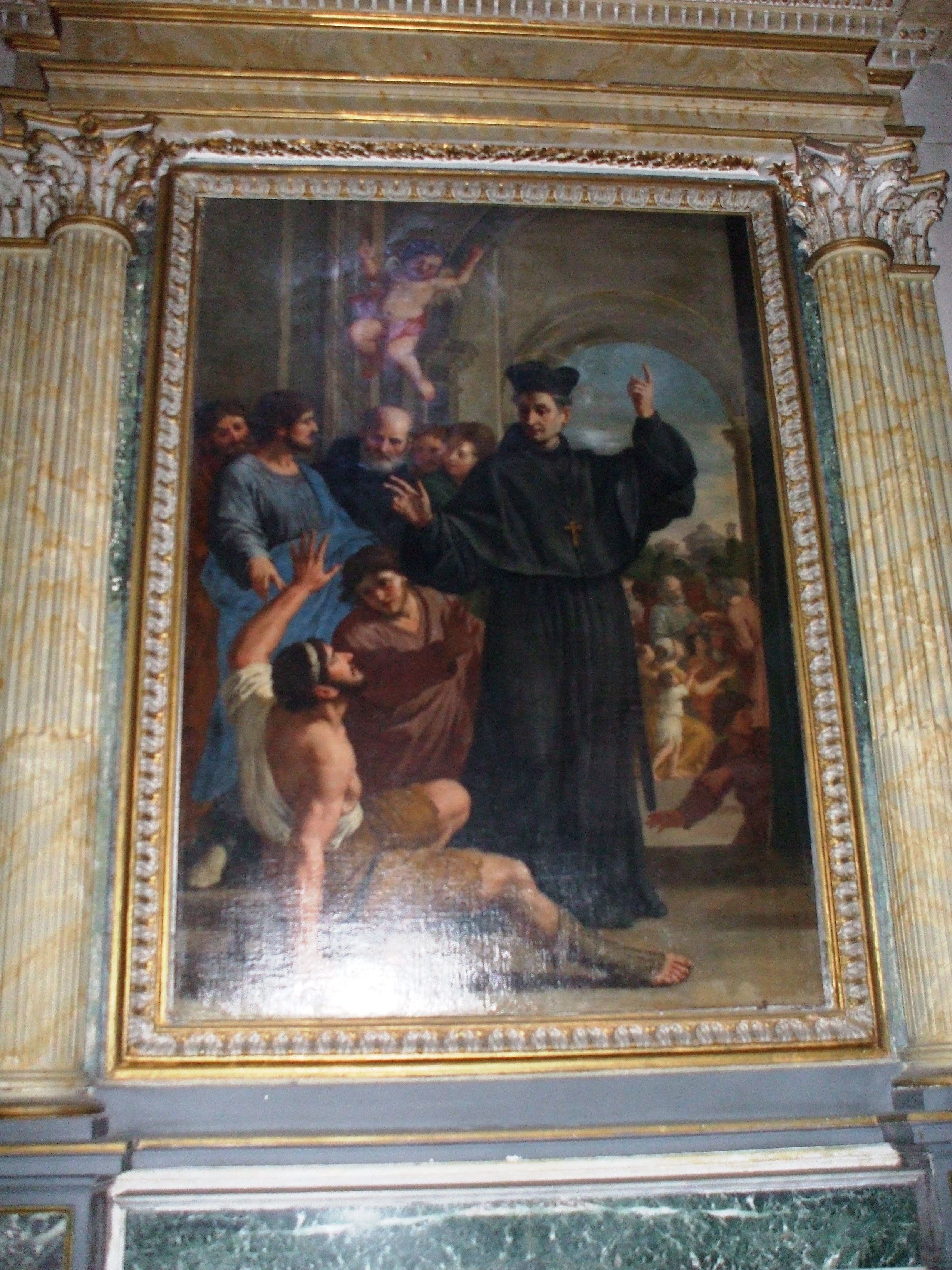 Galloro